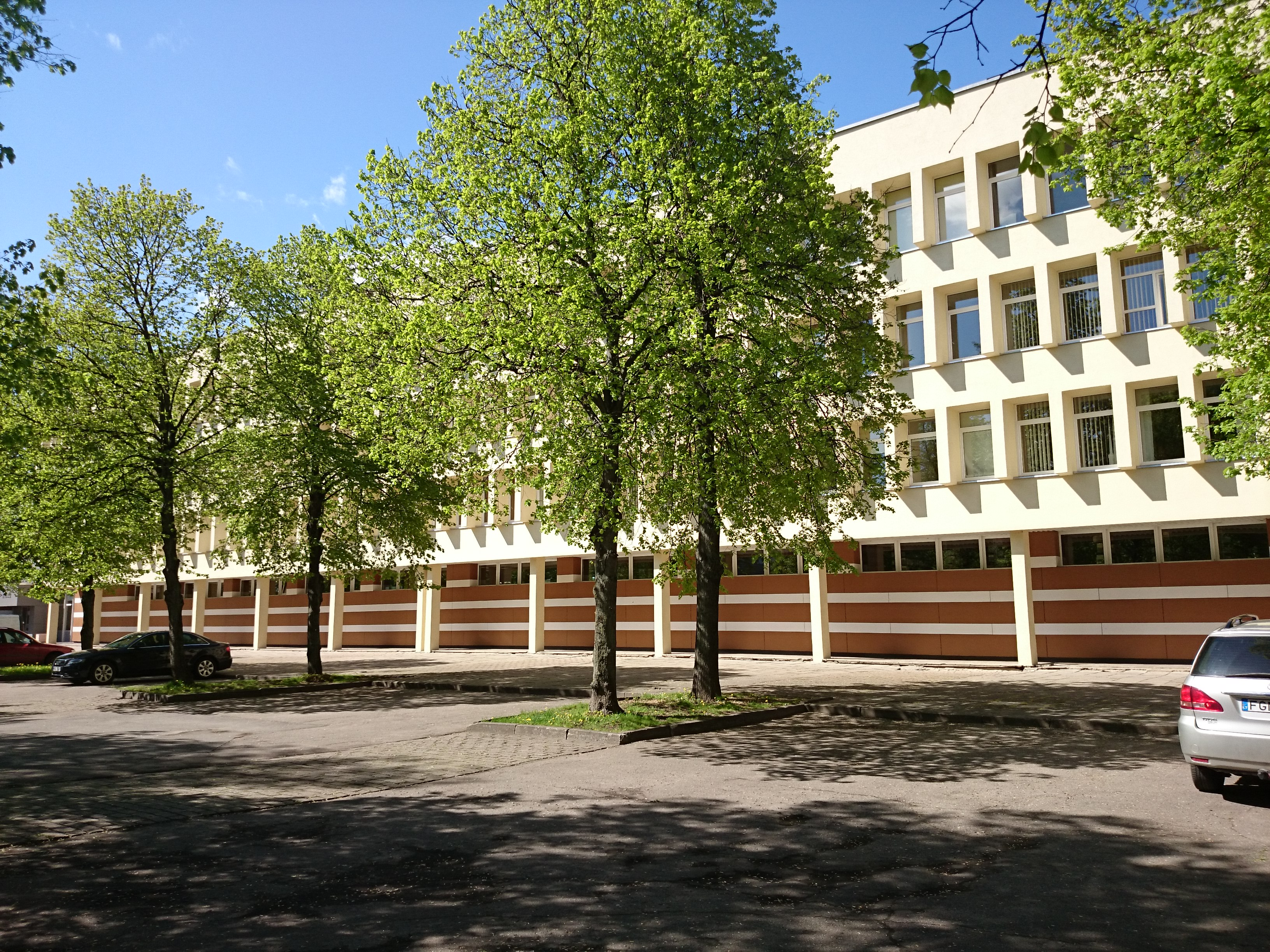 Vilnius Pedagogical University